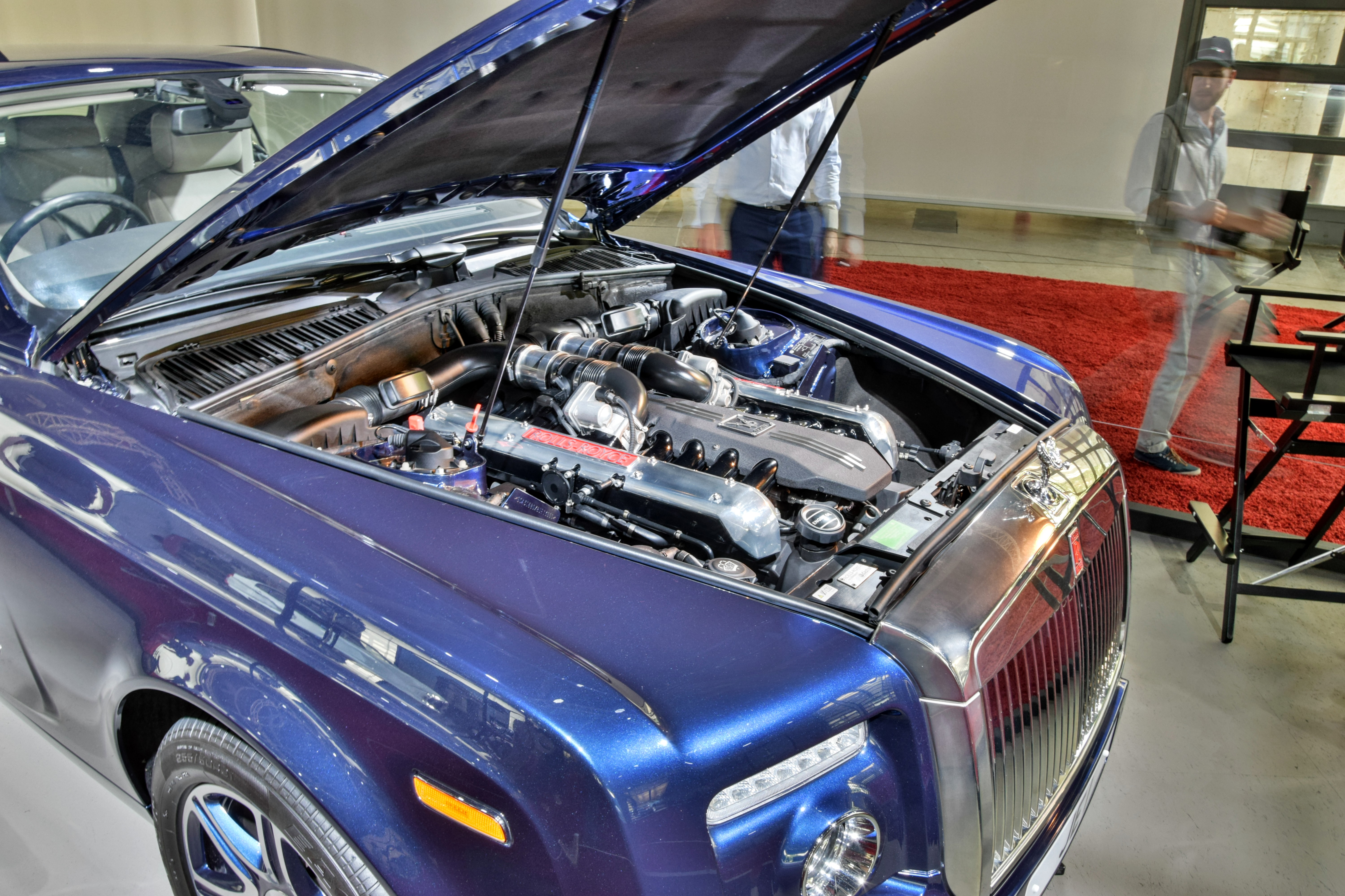 View of the V16 powertrain used in the Rolls-Royce 101EX. This car was featured in the popular Johnny English movie, starring Rowan Atkinson.